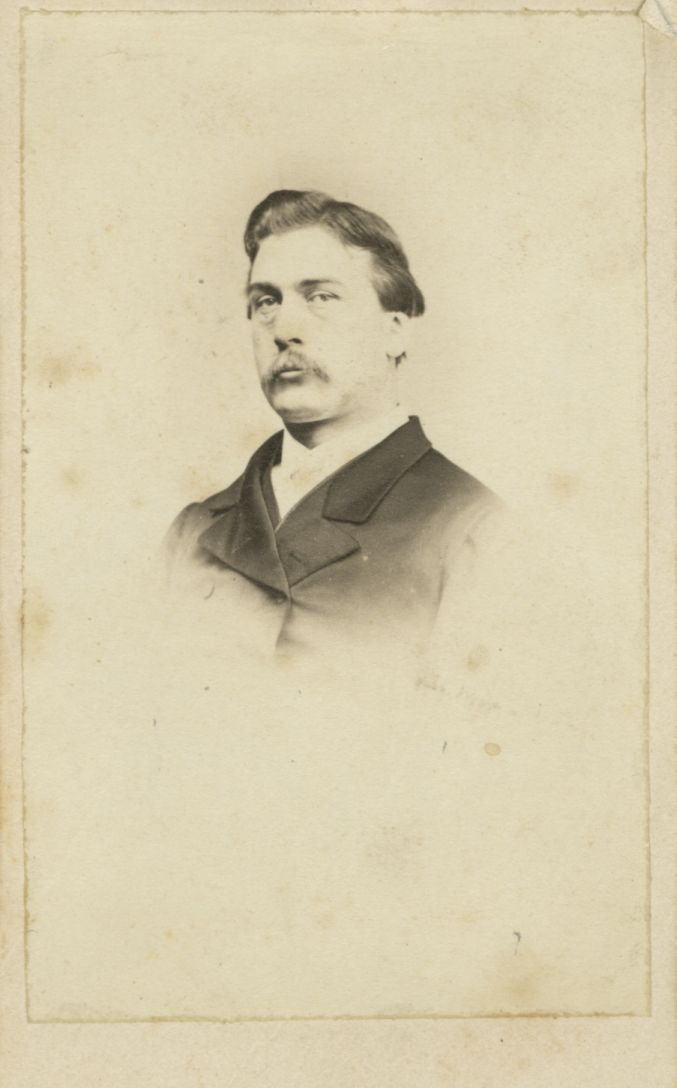 Artist: Bödtker Norman Date/place: Unknown date/Bergen Subject: Oluf Svendsen Medium: Photographic posetiv Notes: Norwegian fluteplayer. Born in Christiania (Oslo) 19.04. 1832 - dead in London 15.05. 1888 Original belongs to the Archives at [#//bergenbibliotek.no/digitale-samlinger” Bergen Public Library]